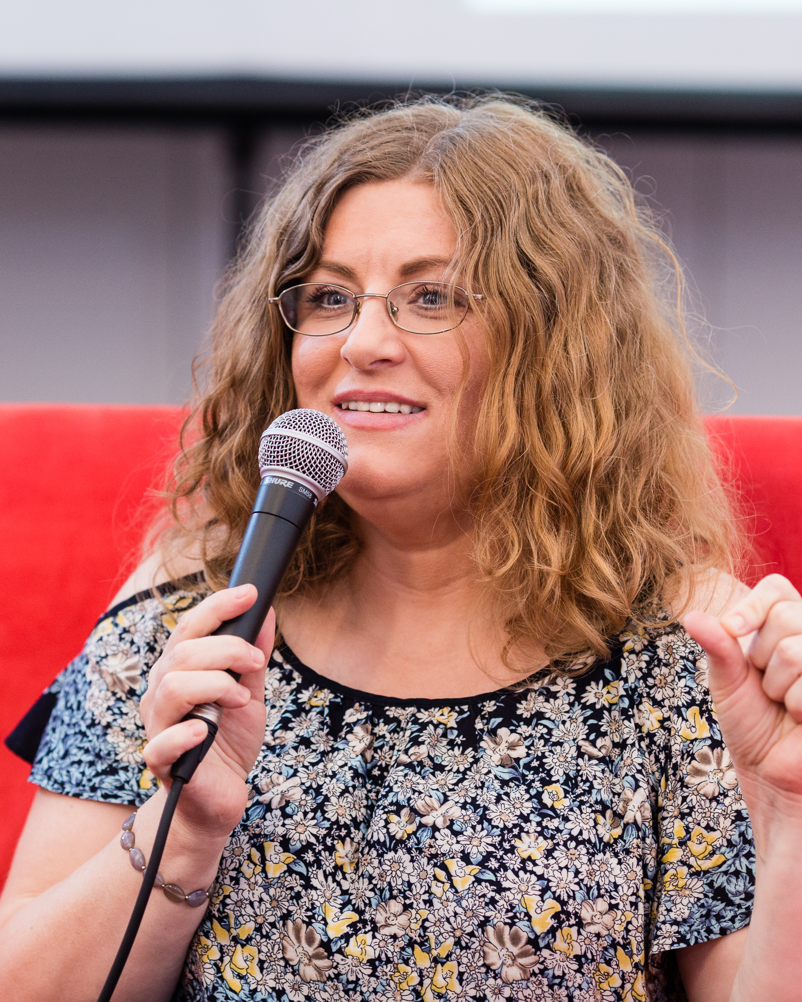 Wioletta Grzegorzewska on Authors’ Reading Month 2018, Wrocław, Poland